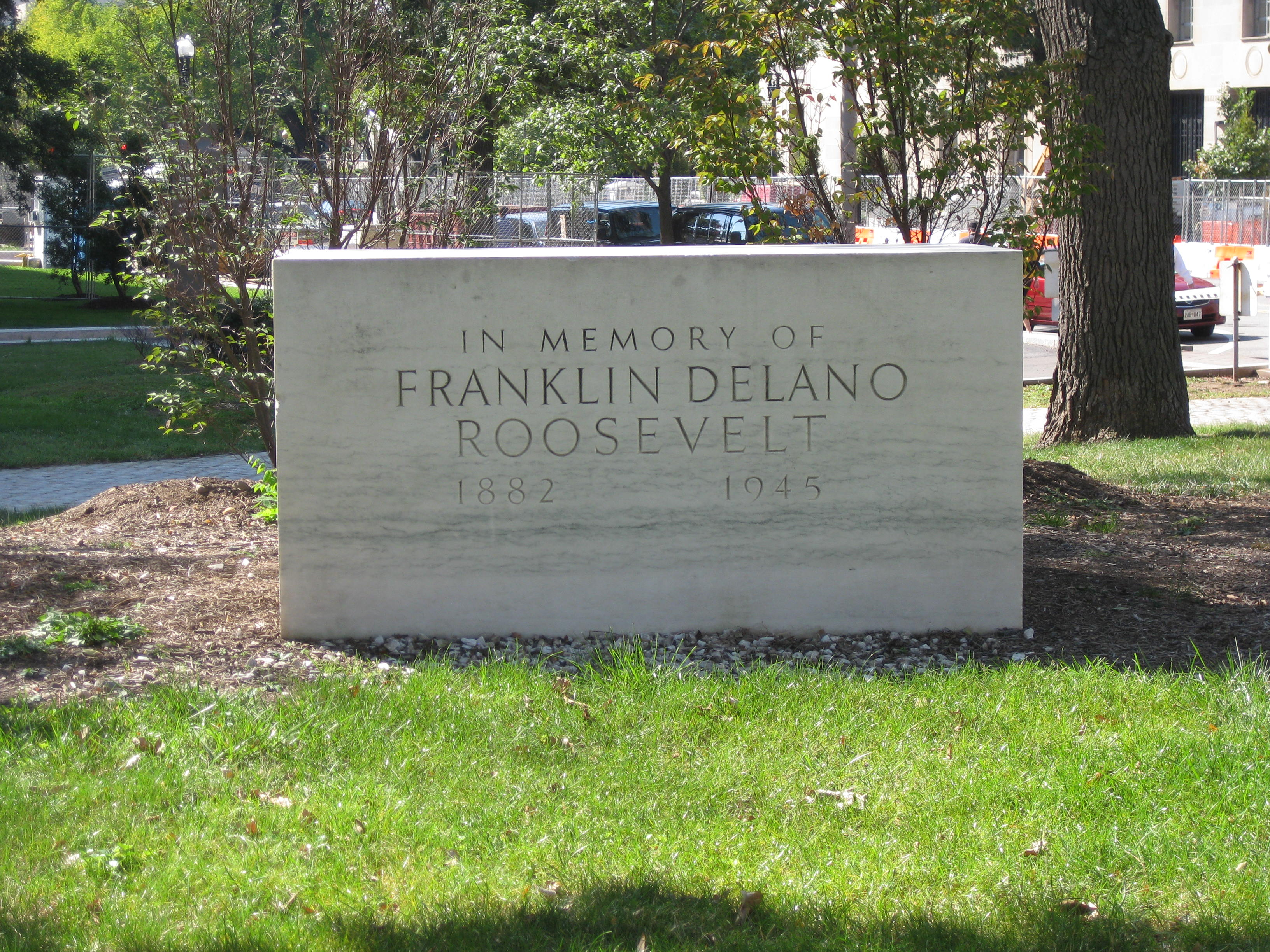 This rectangular block of white marble is inscribed "In Memory of Franklin Delano Roosevelt 1882-1945". The 3 feet tall, 7 feet long, 4 feet wide block is located at 852 Pennsylvania Avenue NW, near the southeast corner of Ninth Street NW and Pennsylvania Avenue NW, in the front lawn of the National Archives Building in Washington, D.C. A plaque near the memorial quotes Roosevelt's wish that "If they are to put up any memorial to me, I should like it to be placed in the center of that green plot in front of the Archives Building. I should like it to consist of a block about the size [of this desk]".The monument was dedicated on April 12, 1965, the 20th anniversary of FDR's death. It is the first memorial to Franklin Delano Roosevelt constructed in Washington, D.C. Reference: Franklin D. Roosevelt Memorial Block: Washington, DC